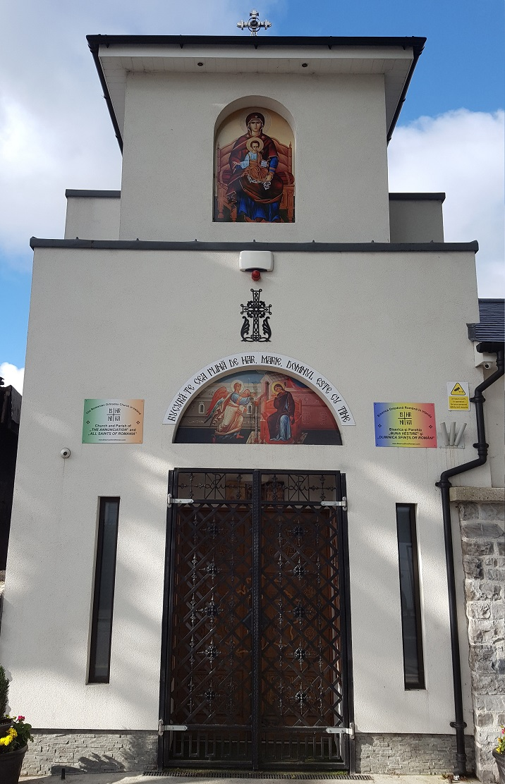 he Church of the Annunciation, number 59 Western Way, Broadstone, Dublin D07 FA38 This site previously was host to St. Dominic's Youth Club DublinBikes docking station 102 is located closeby